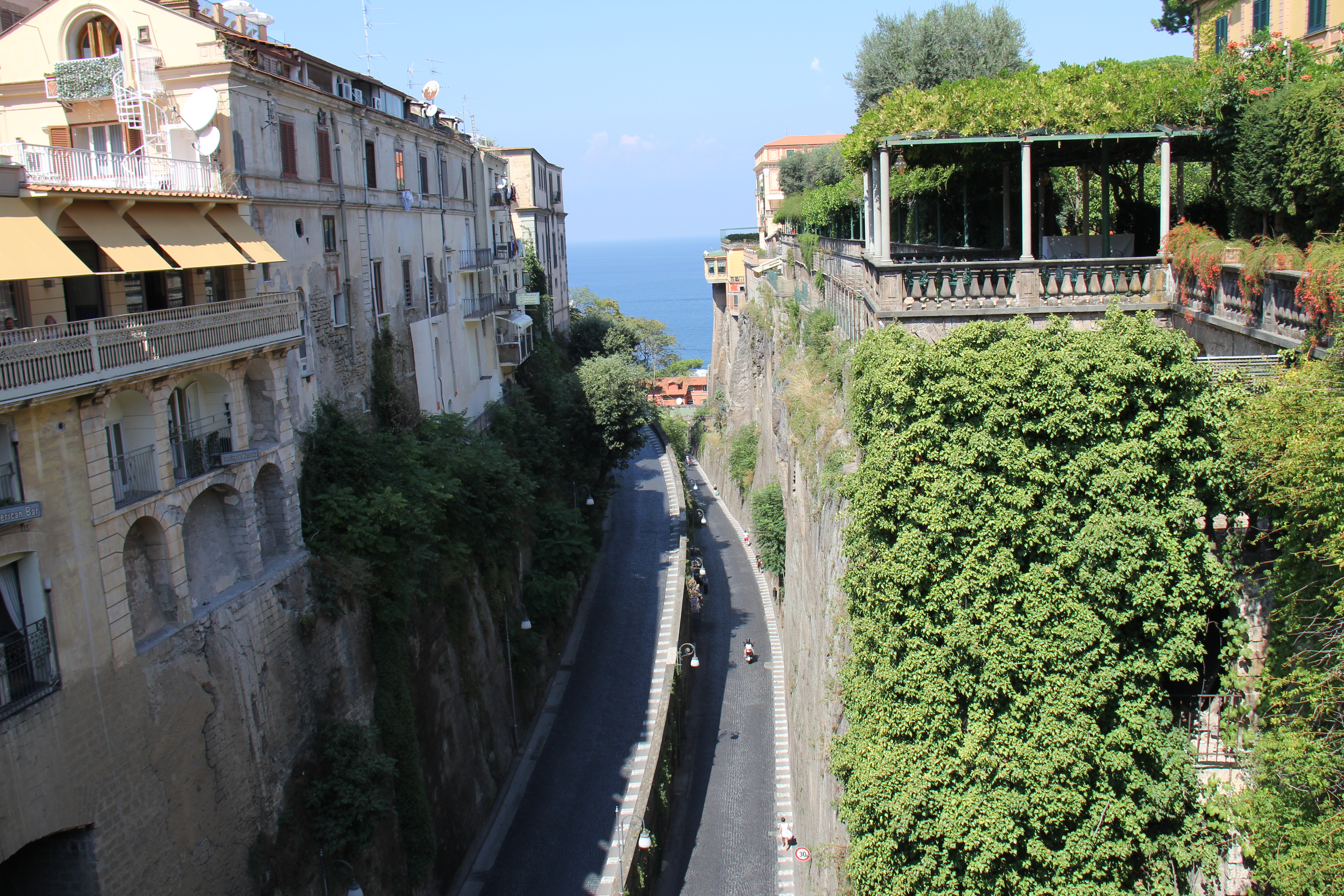 View of Sorrento from Piazza Tasso